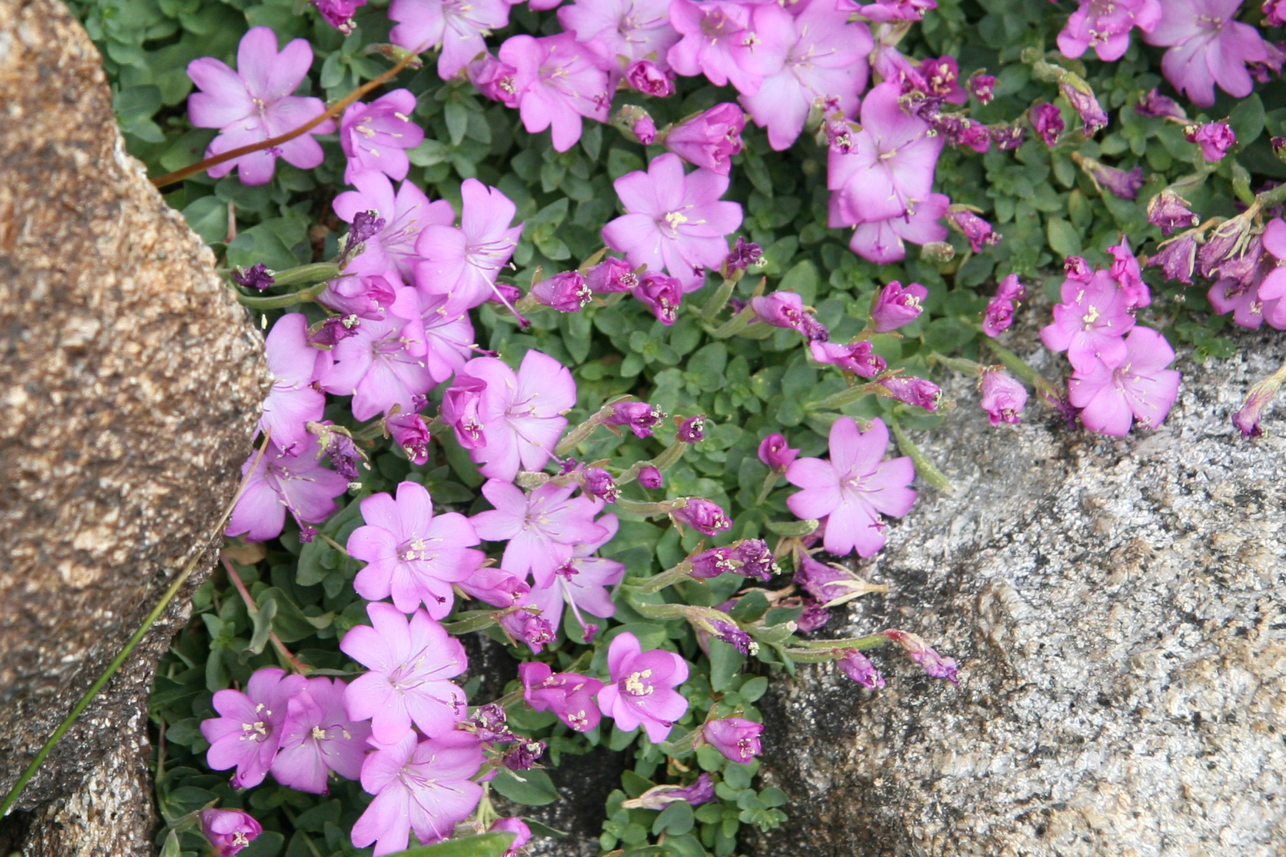 Rock fringe (Epilobium obcordatum), in rocks. In Pioneer Basin, Sierra Nevada, California.